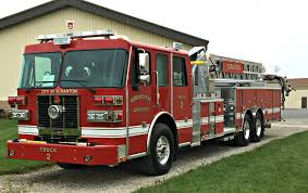 Photo of SFD's Truck 2